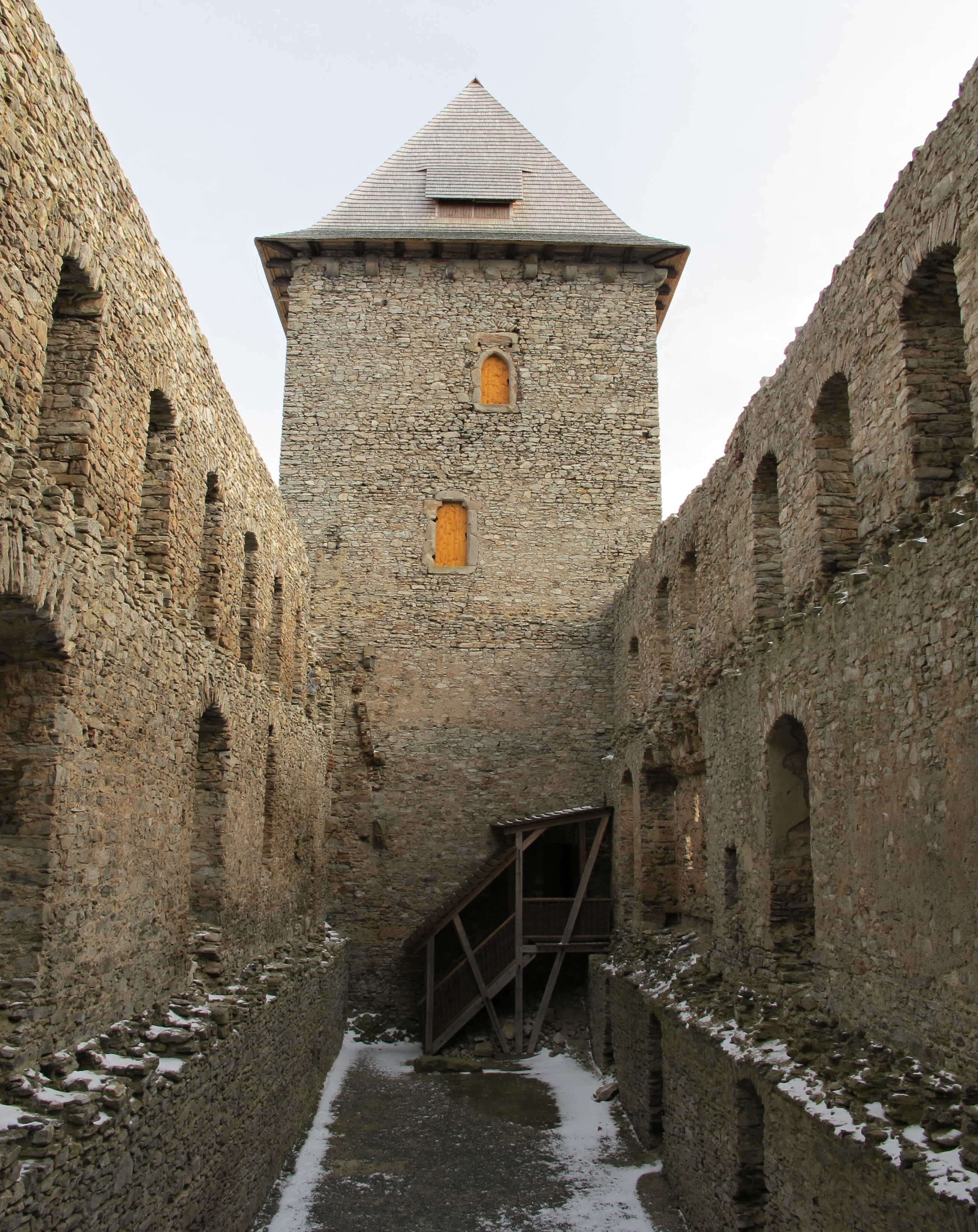 Kašperk Castle near Kašperské Hory; nature park Kašperská vrchovina, Klatovy District in Czech Republic